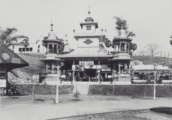 The Formosa Tea House at the Colonial Exhibition in Semarang